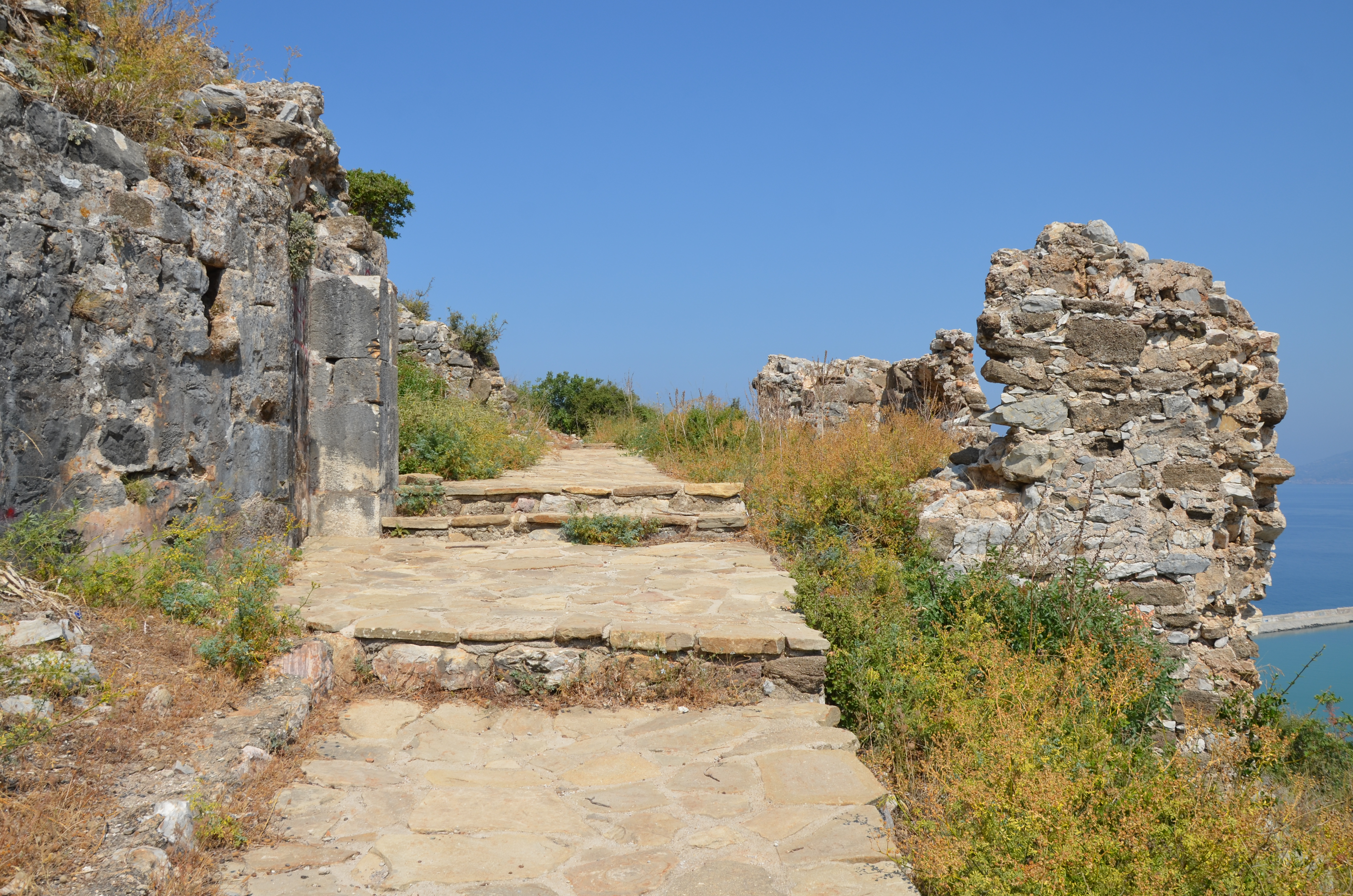 Modern stairway going through the gate of the lower fortification walls, Selinus, Cilicia, Turkey